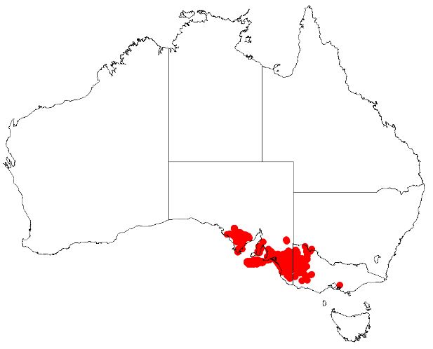 Hakea mitchellii Occurrence data downloaded from AVH on 22 November 2018 using